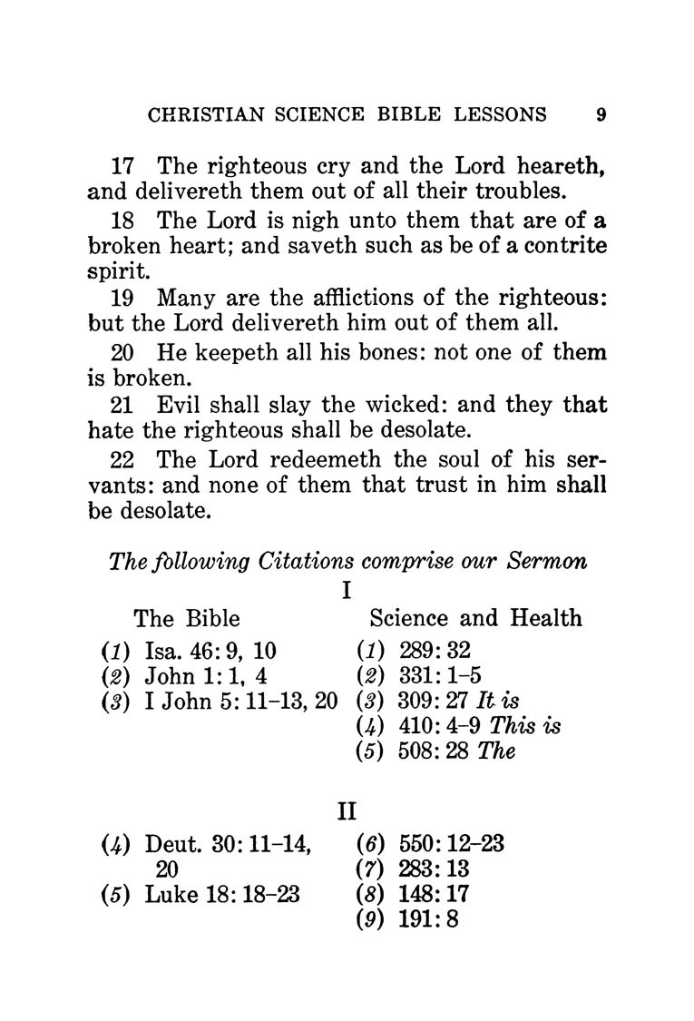 Christian Science Quarterly Bible Lesson-sermon, subject: Life, for January 20, 1918, second of three pages.Bible citations indicate the book and chapter number; after the colon, are the verse numbers to read. Science & Health citations indicate first the page number; after the colon, the number indicates the line to begin reading, starting with the sentence that begins on that line and continuing to the end of the paragraph (unless an ending line number is given). Some ending line numbers are on the next page. Because there were numerous revisions of Science and Health prior to the final edition in 1910, the Quarterly italicized words for the benefit of readers still using older editions, where sentences began on different line numbers.